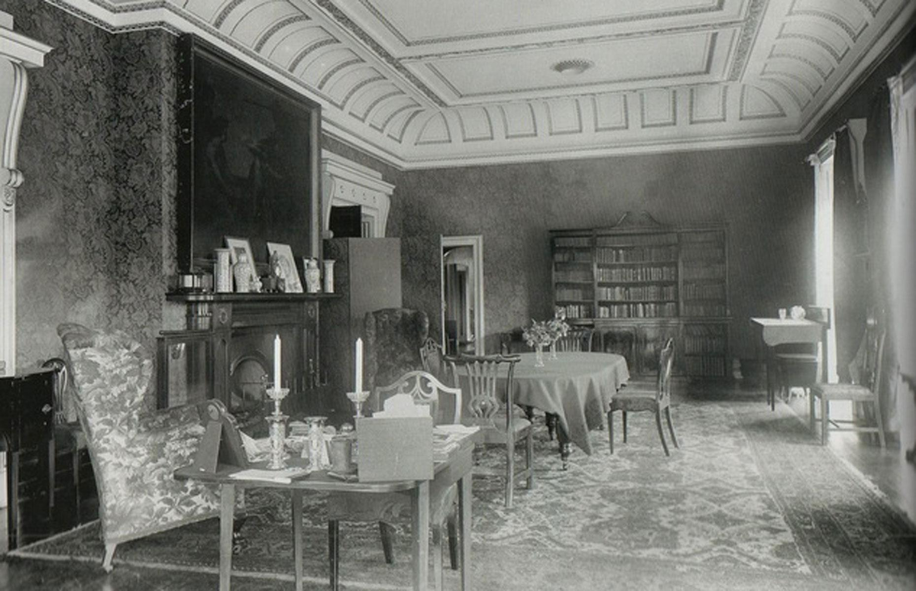 Mayfield house in its prime.